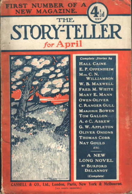 Front cover of The Story-Teller, issue 1, April 1907. Published in London by Cassell & Co.